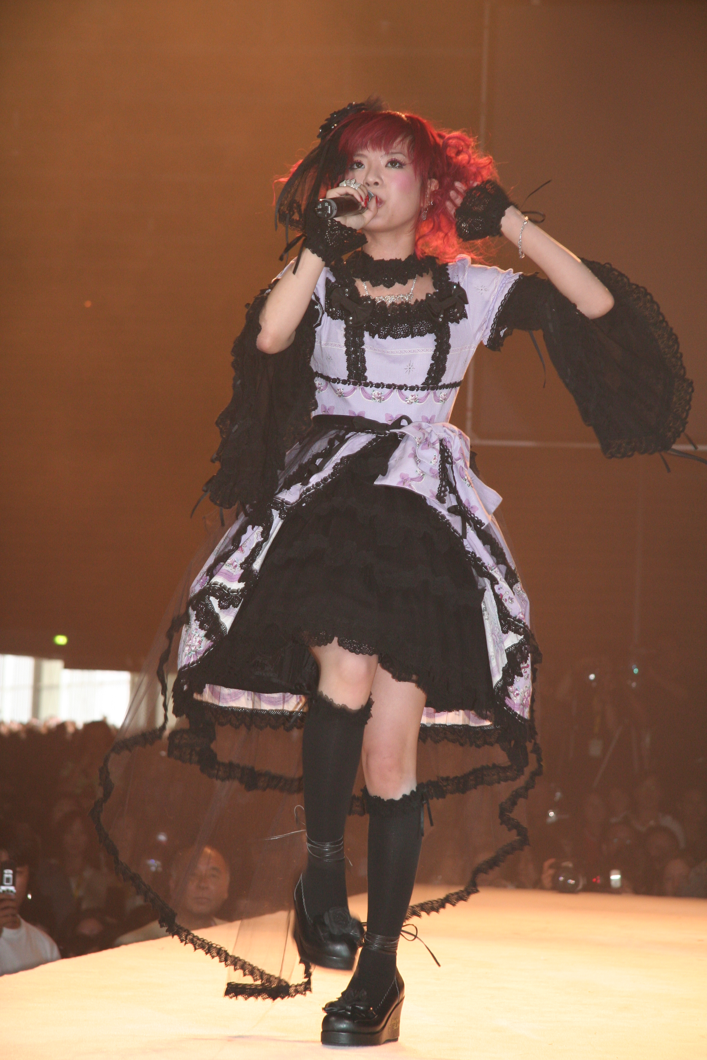 Nana Kitade live at Japan Expo 2007 (Paris, France).